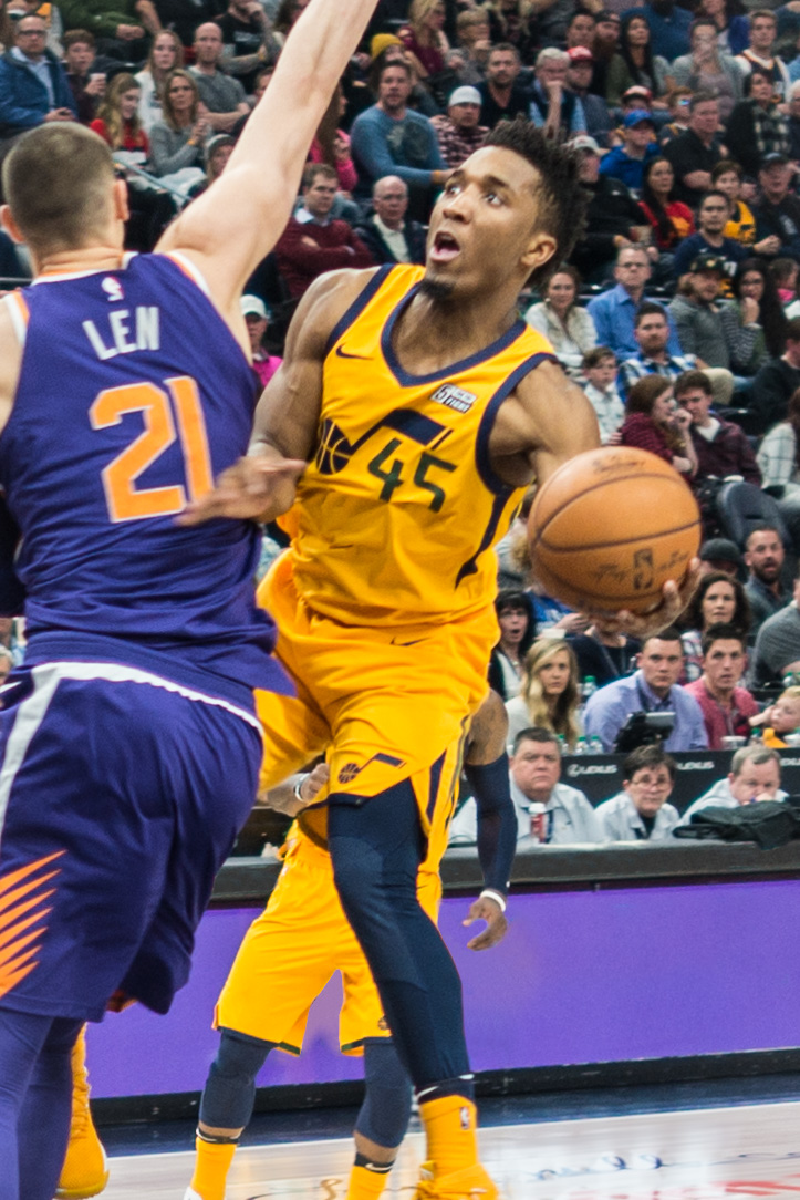 Donovan Mitchell makes an impressive underhanded layup shot in March 15, 2018 game against Phoenix Suns.